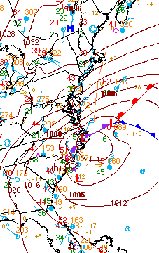 Surface Analysis from the Hydrometeorological Prediction Center from November 22, 2006 at 1200 UTC